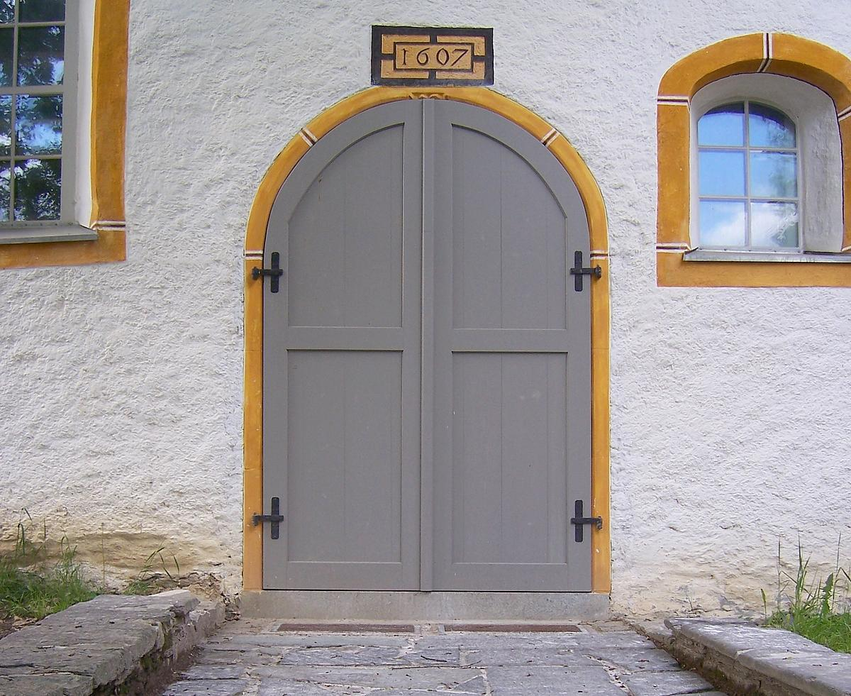 Peter-Pauls-Kirche Beierfeld, Saxony: Portal